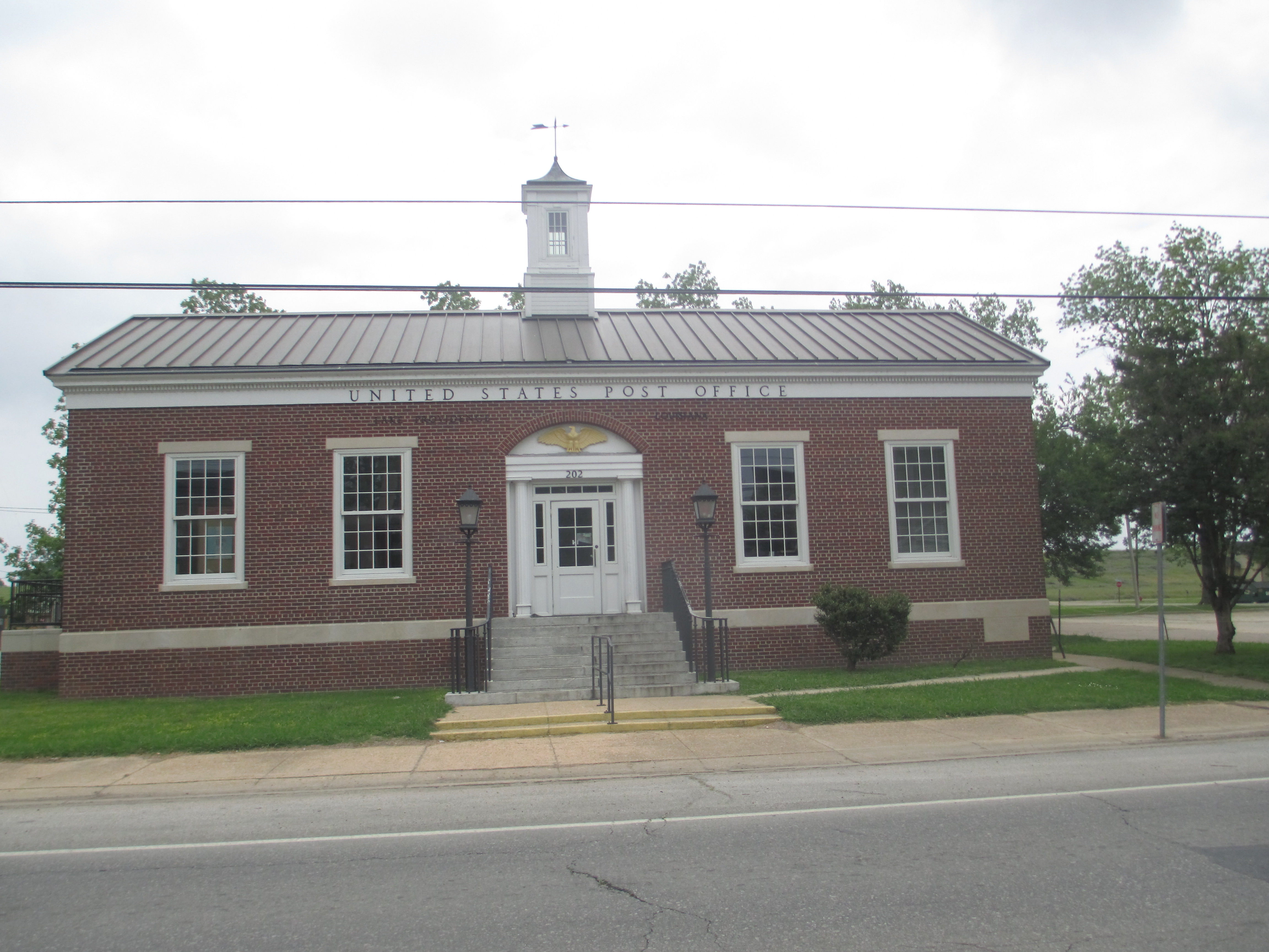 I took photo with Canon camera of U.S. Post Office in Lake Providence, LA.